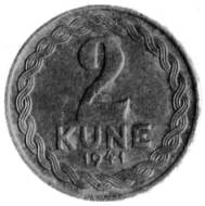 Coin of 2kn, issued 1941. Front side.